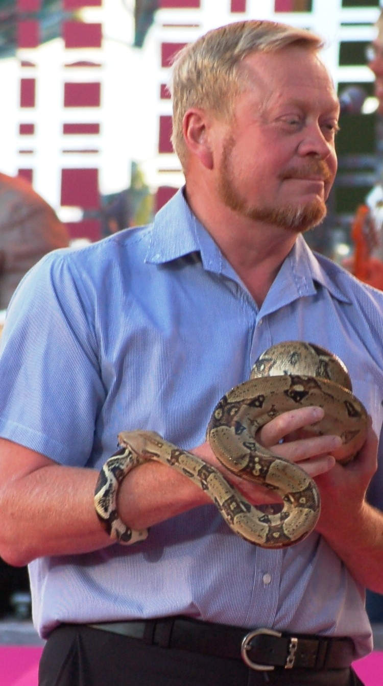 Jonas Wahlström